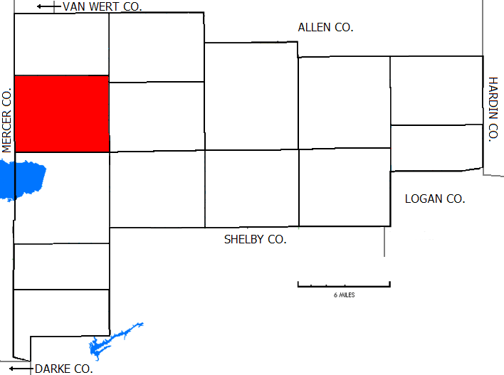 Taken from the Auglaize County map provided by Prinzwilhelm, who claimed that the original map was "self-created based on U.S. Government Census Maps and Date," and modified by myself to show the highlighted township.